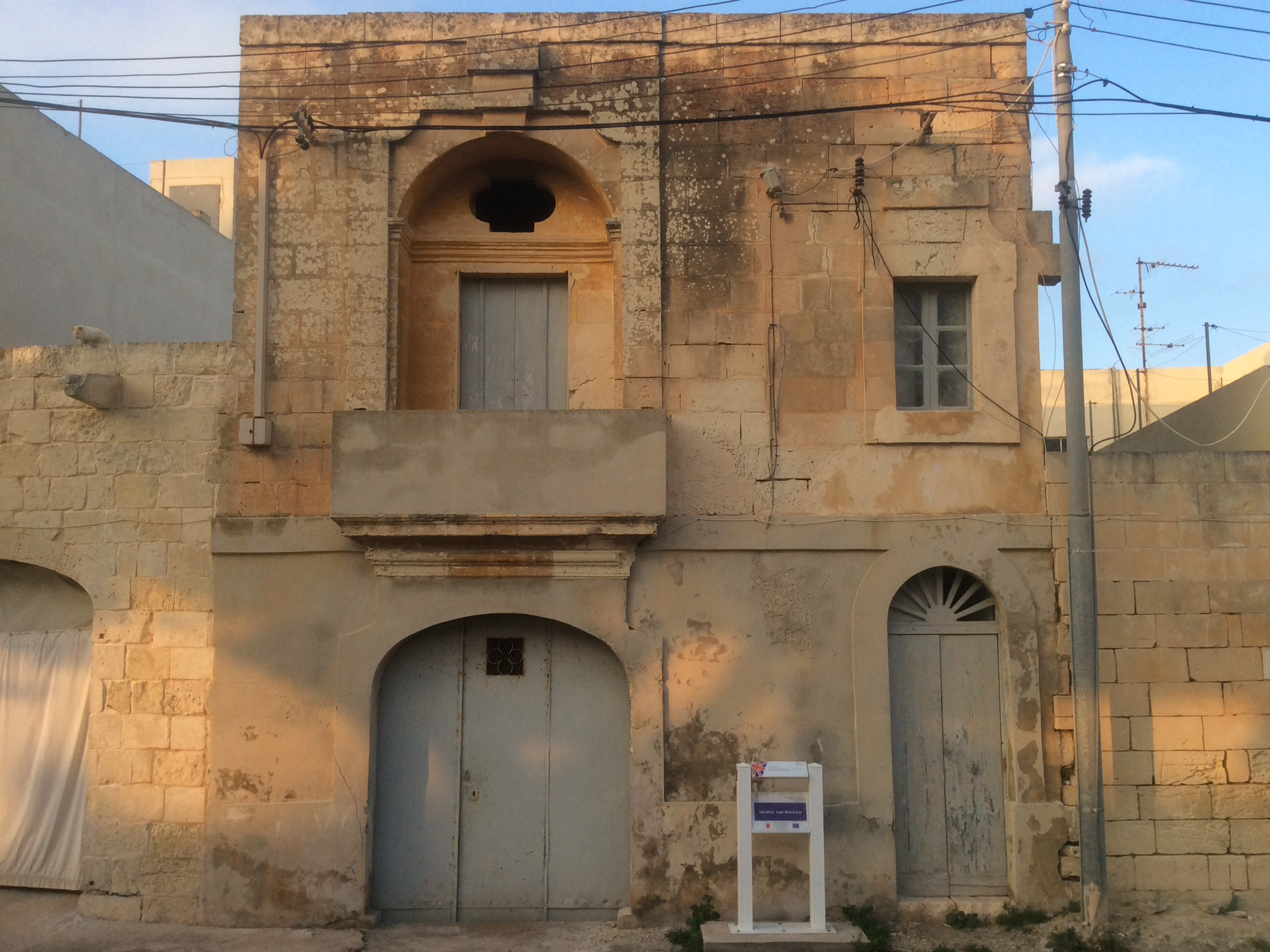 Hompesch Hunting Lodge, Dar il-Kaxxa, Naxxar Malta